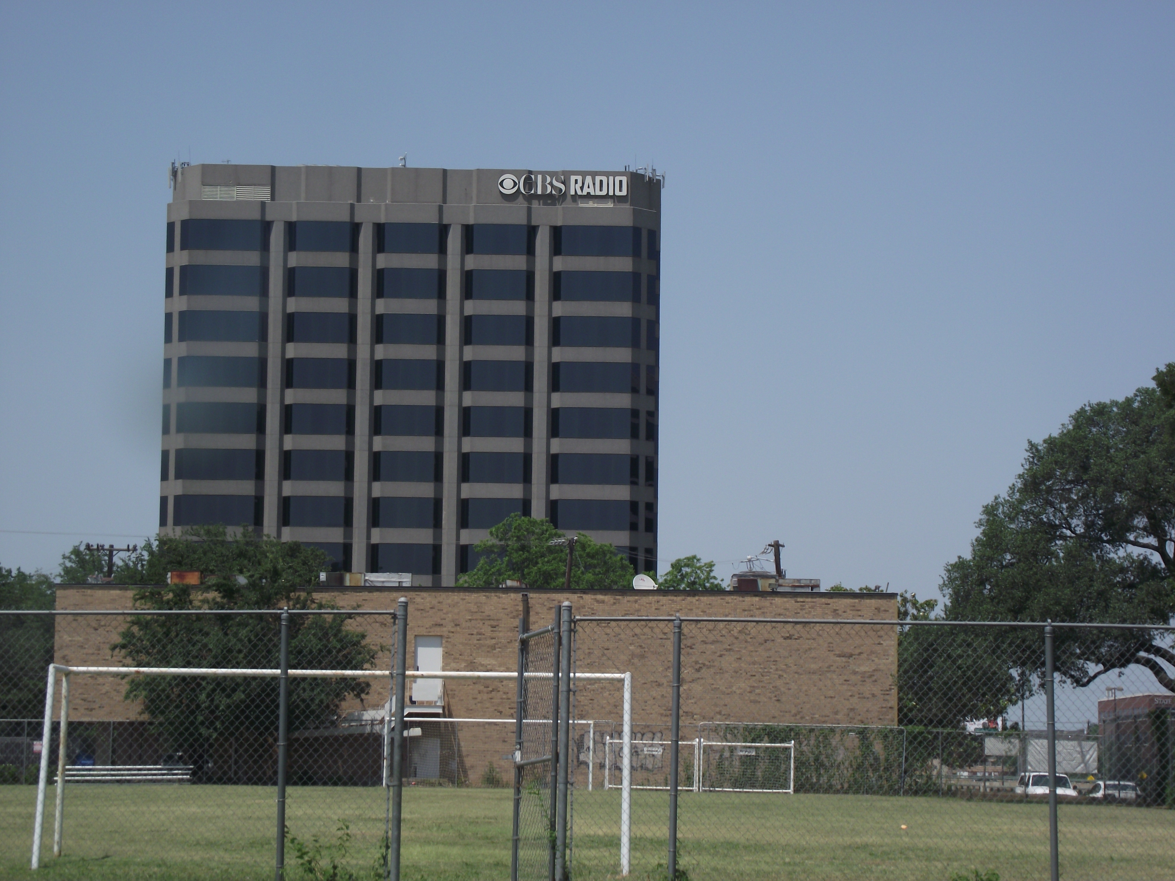 CBS Radio Building on US 75 in Dallas, TX taken from the campus of Dallas Christian Academy